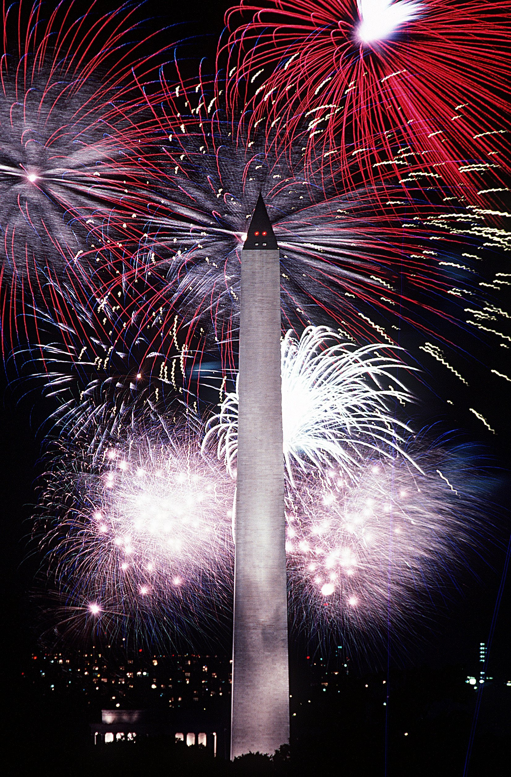 A Fourth of July fireworks display at the Washington Monument. Location: WASHINGTON, DISTRICT OF COLUMBIA (DC) UNITED STATES OF AMERICA (USA)